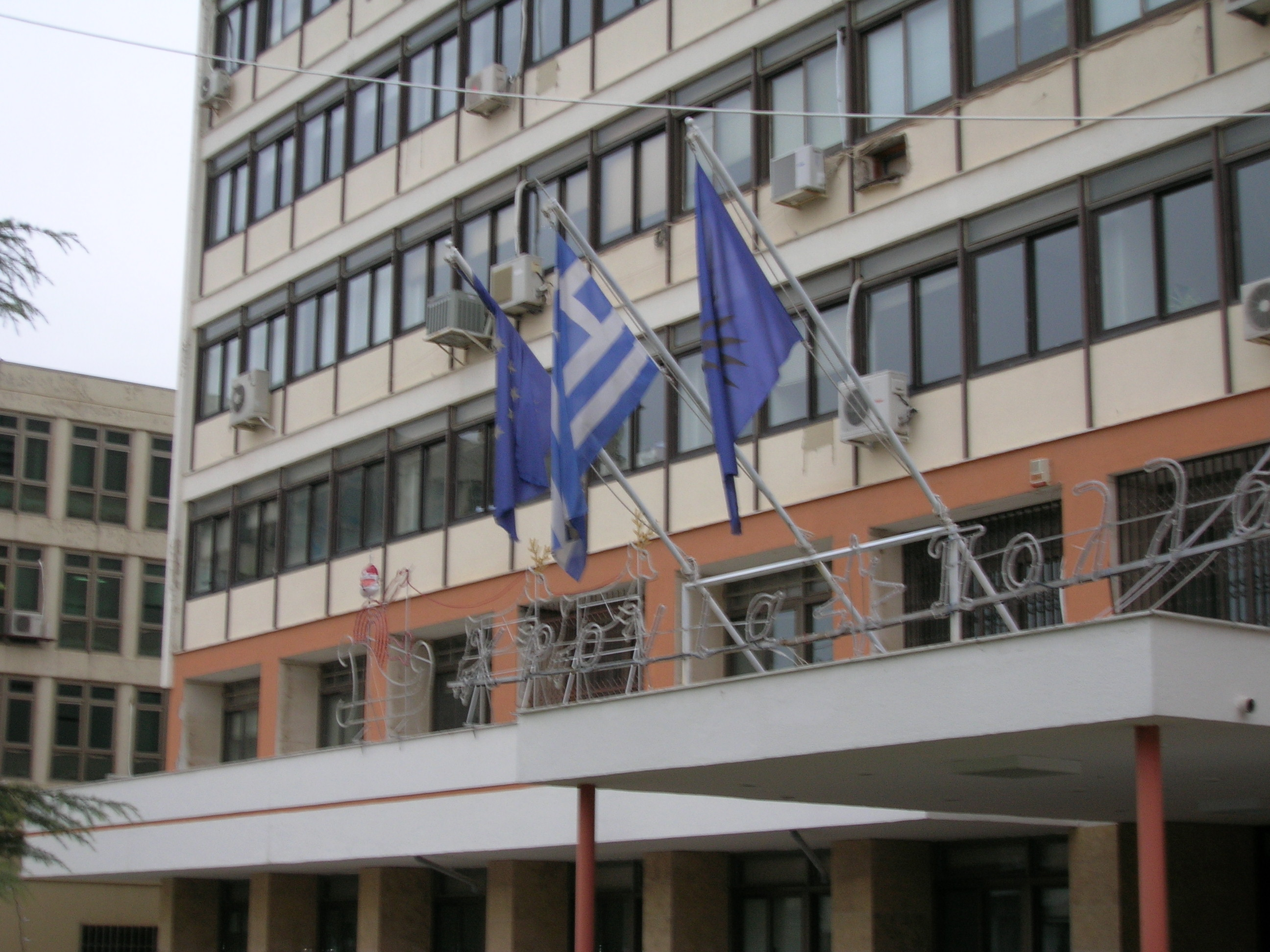 User:Makedonas is the creator of this work.